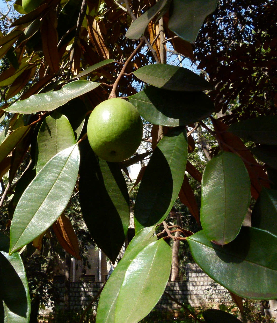 Chrysophyllum cainito fruit on tree in cultivation, India